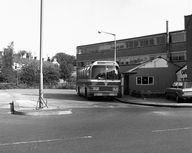 Earby Bus Station